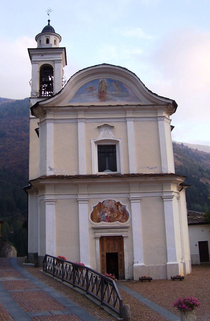 Church of st Lucy. Pezzo, Ponte di Legno, Val Camonica